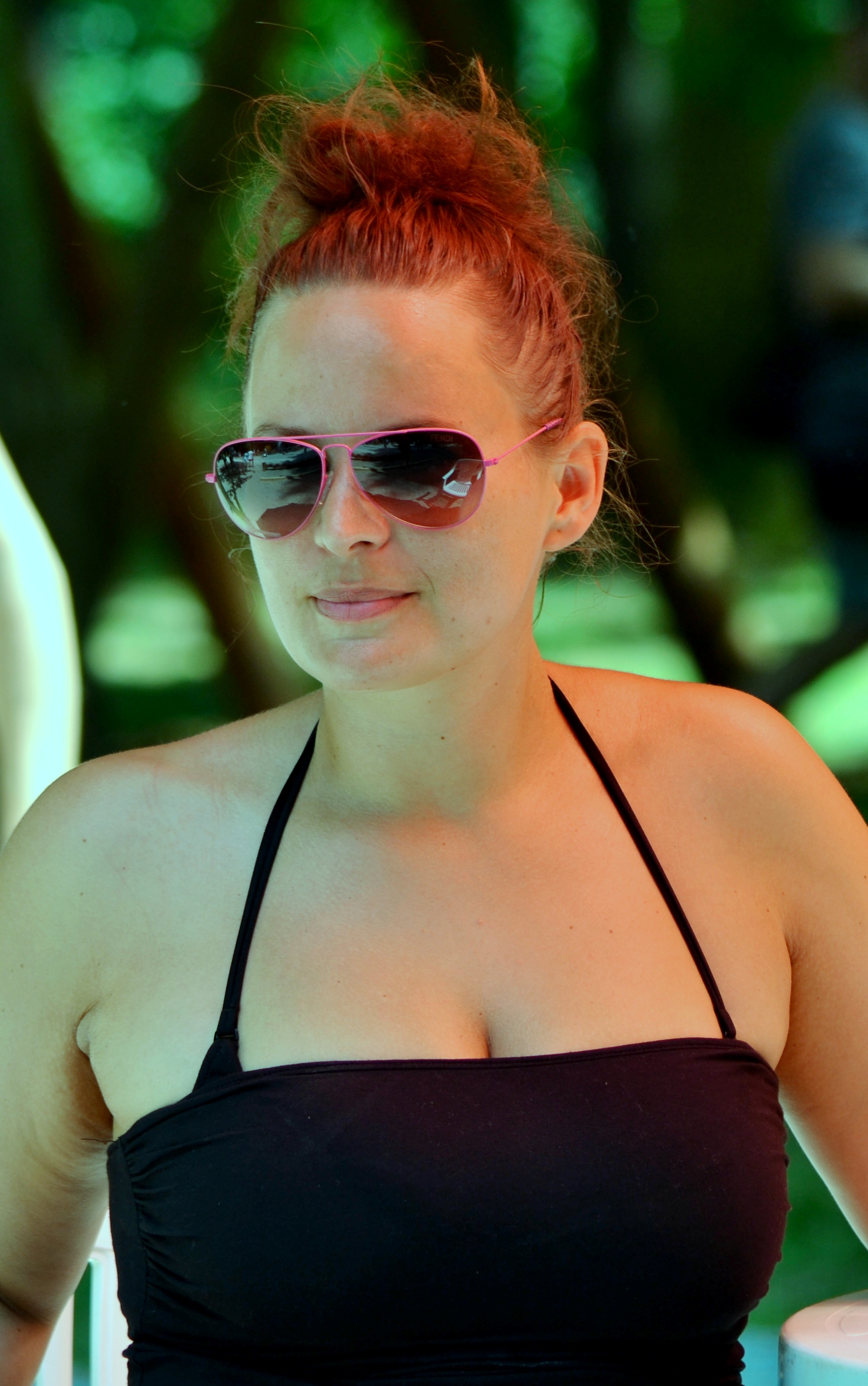 Jitka Čvančarová, Czech actress